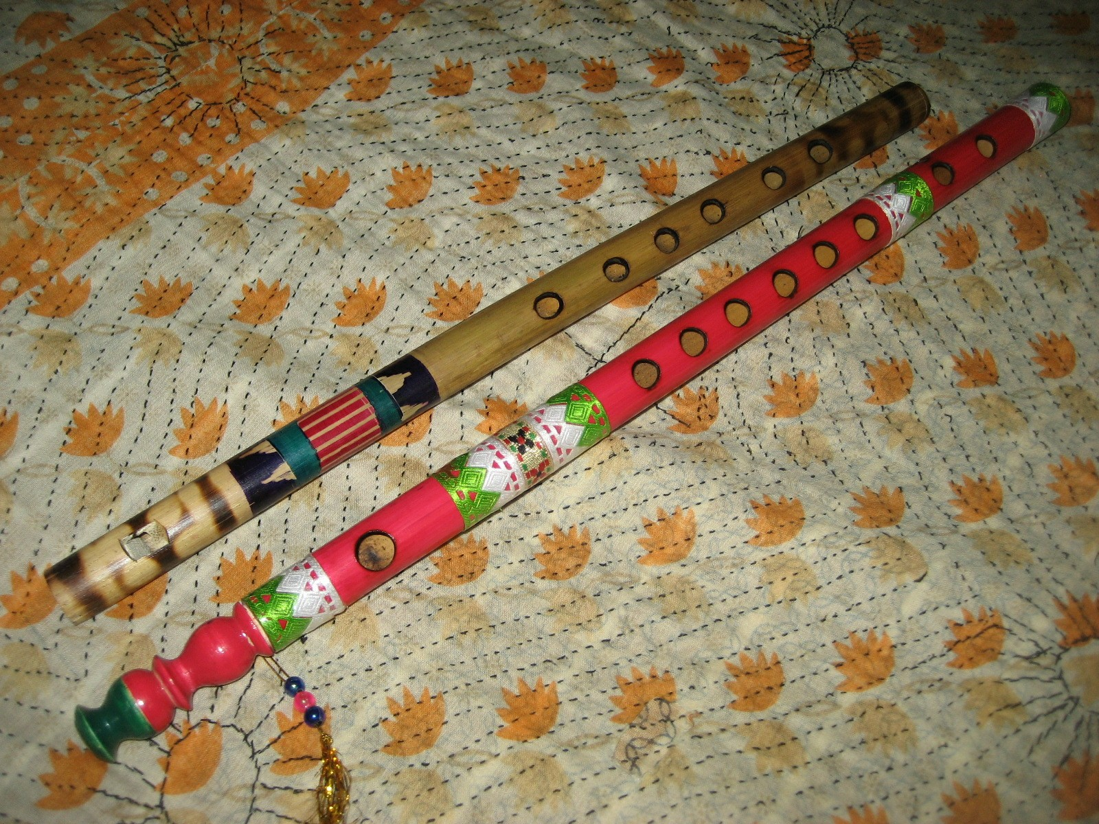 Bengali flutes